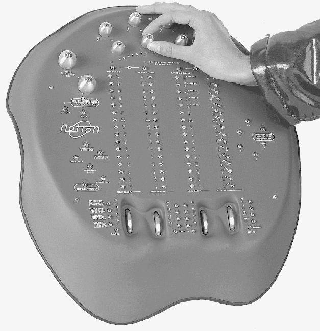 Image uploaded by Keith Worden; photograph taken by Dave Spowage, Concourse Systems, who I work for. Notron hasn't been made for some years and the photo can be freely distributed.